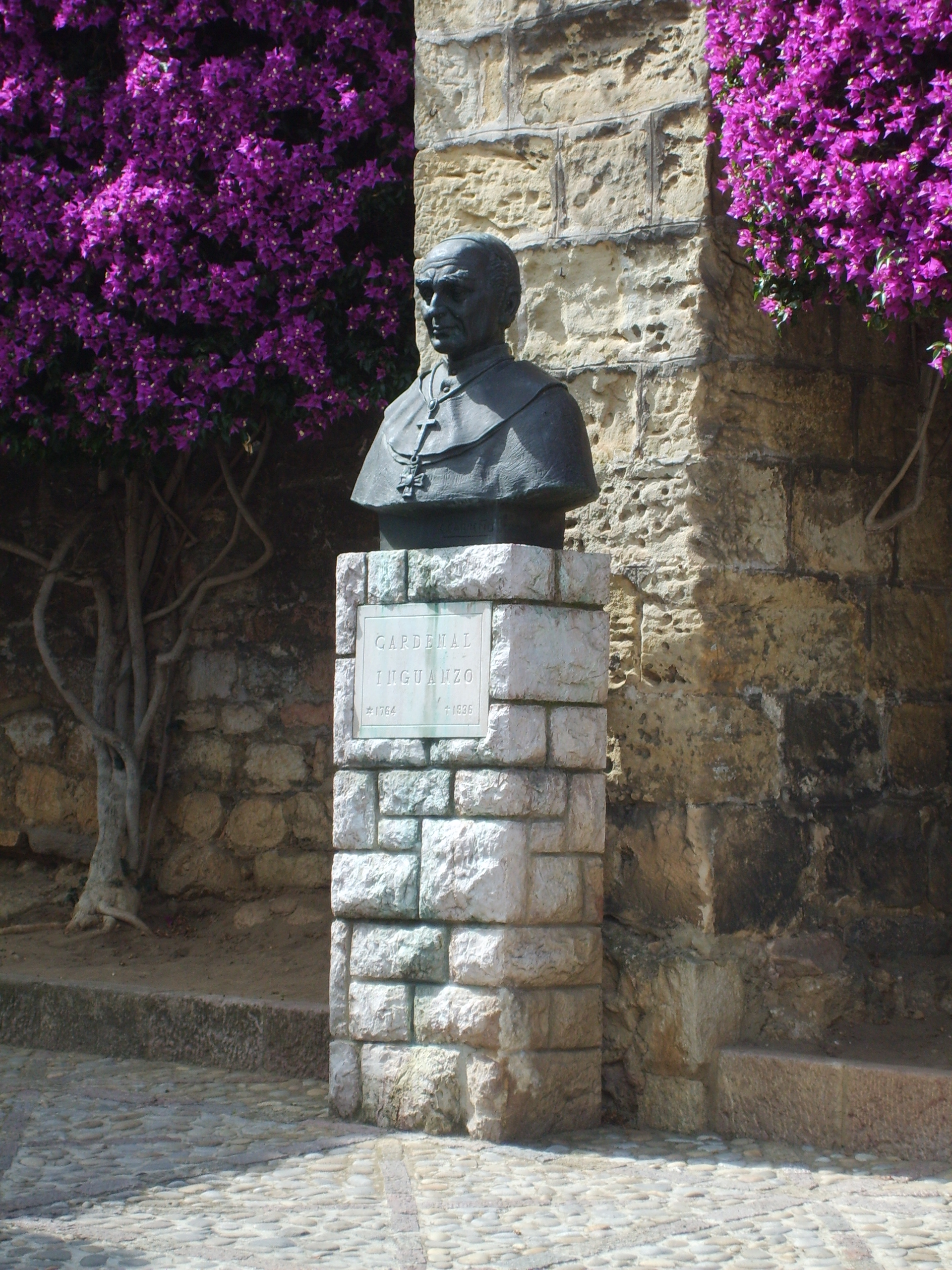 Bust of Inguanzo Cardinal (1764-1836), near the church of Santa María del Concejo, Llanes, Spain.